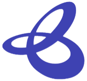 Hanshin Expwy logo